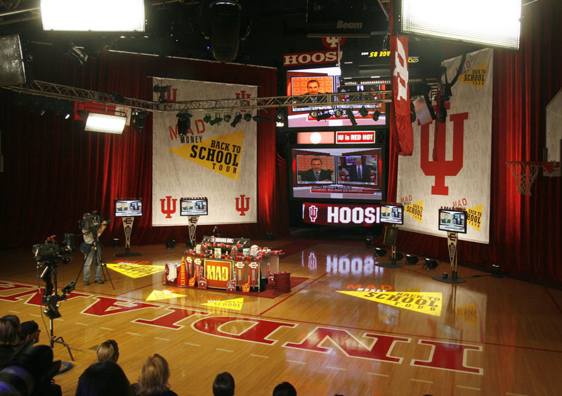 CNBC Mad Money at Indiana UniversityBOOYAH